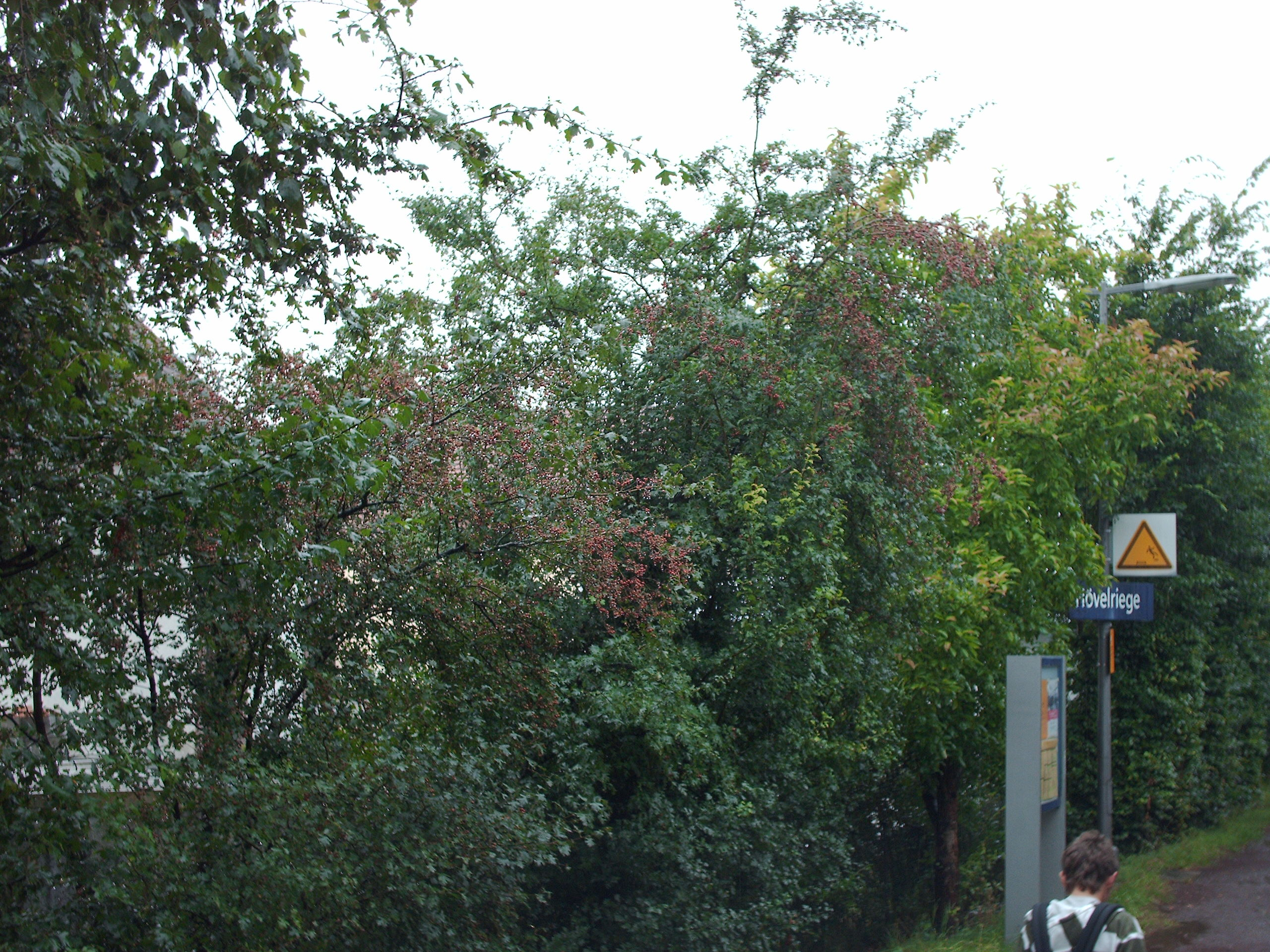 Hövelriege station, Hövelhof, Germany check usage